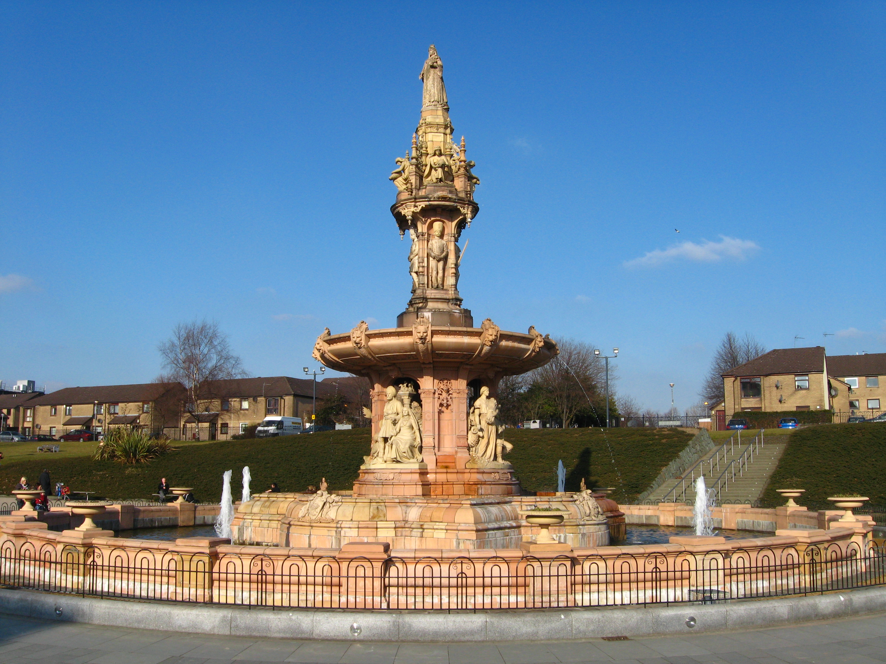 Doulton Fountain was gifted to Glasgow as part of the International Exhibition of 1888. Designed by architect Arthur E. Pearce, the 48 ft tall fountain was built by the Royal Doulton company to commemorate Queen Victoria's reign. Since 2004 it has been placed in a new location, in front of the People's Palace in Glasgow, Scotland. It is claimed to be the largest terracotta fountain in the world.